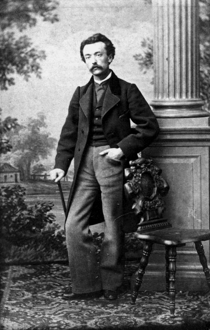 Portrait of Ludwik Brzozowski (1833-1873), Polish writer and poet.